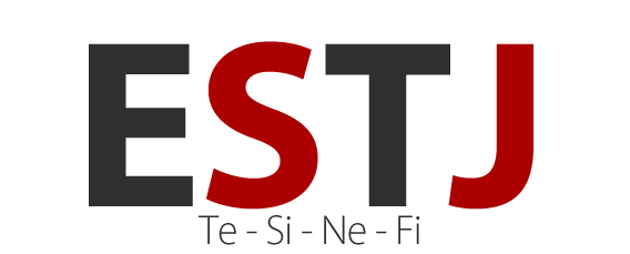 Logo pour ESTJ avec fonctions cognitives.